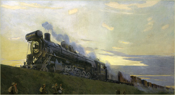 High power steam locomotive FD